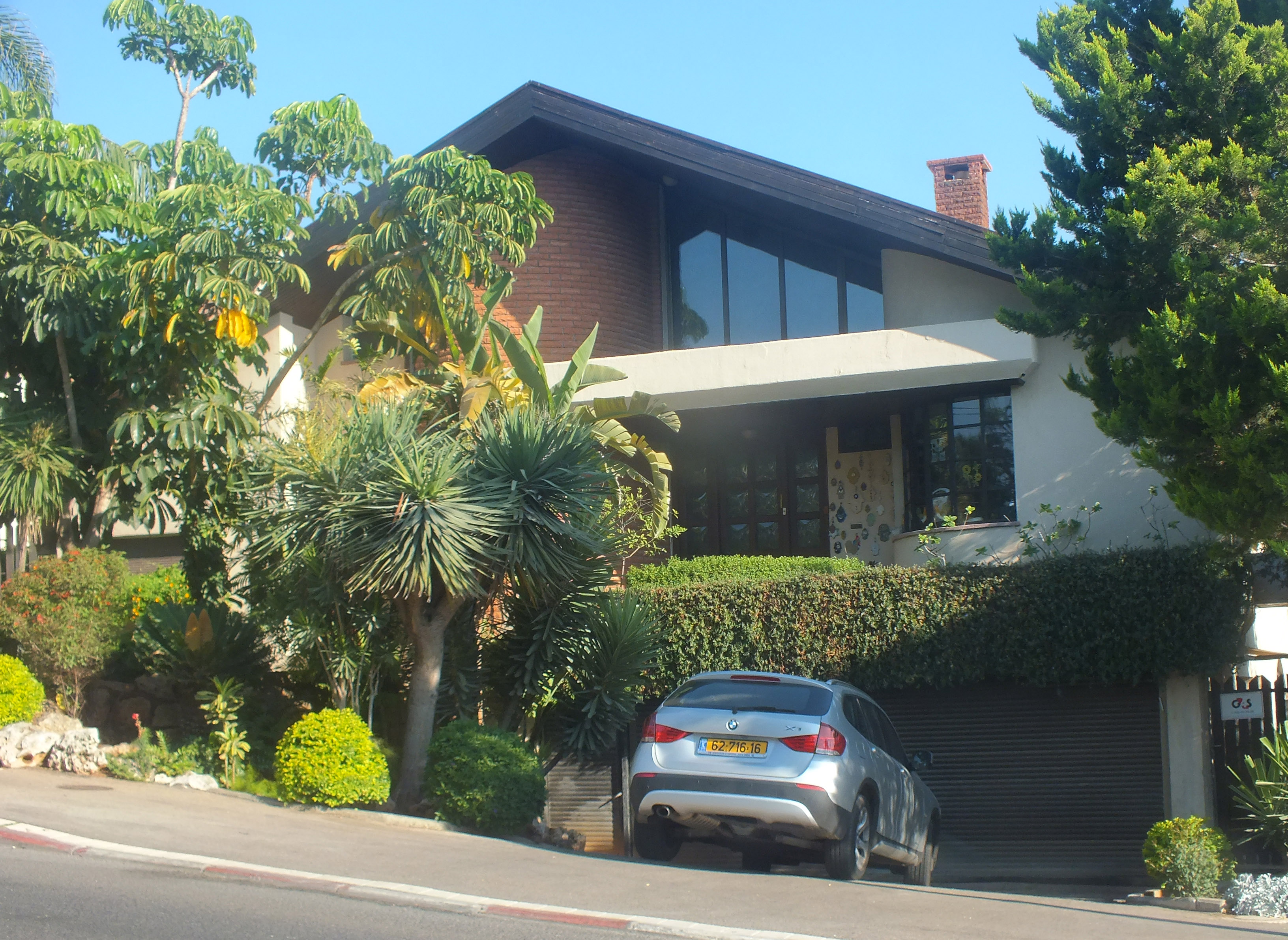 House on Antwerpen Street. Notice the inclining physical features... typical for the neighbourhoods in Haifa's mountanious south.